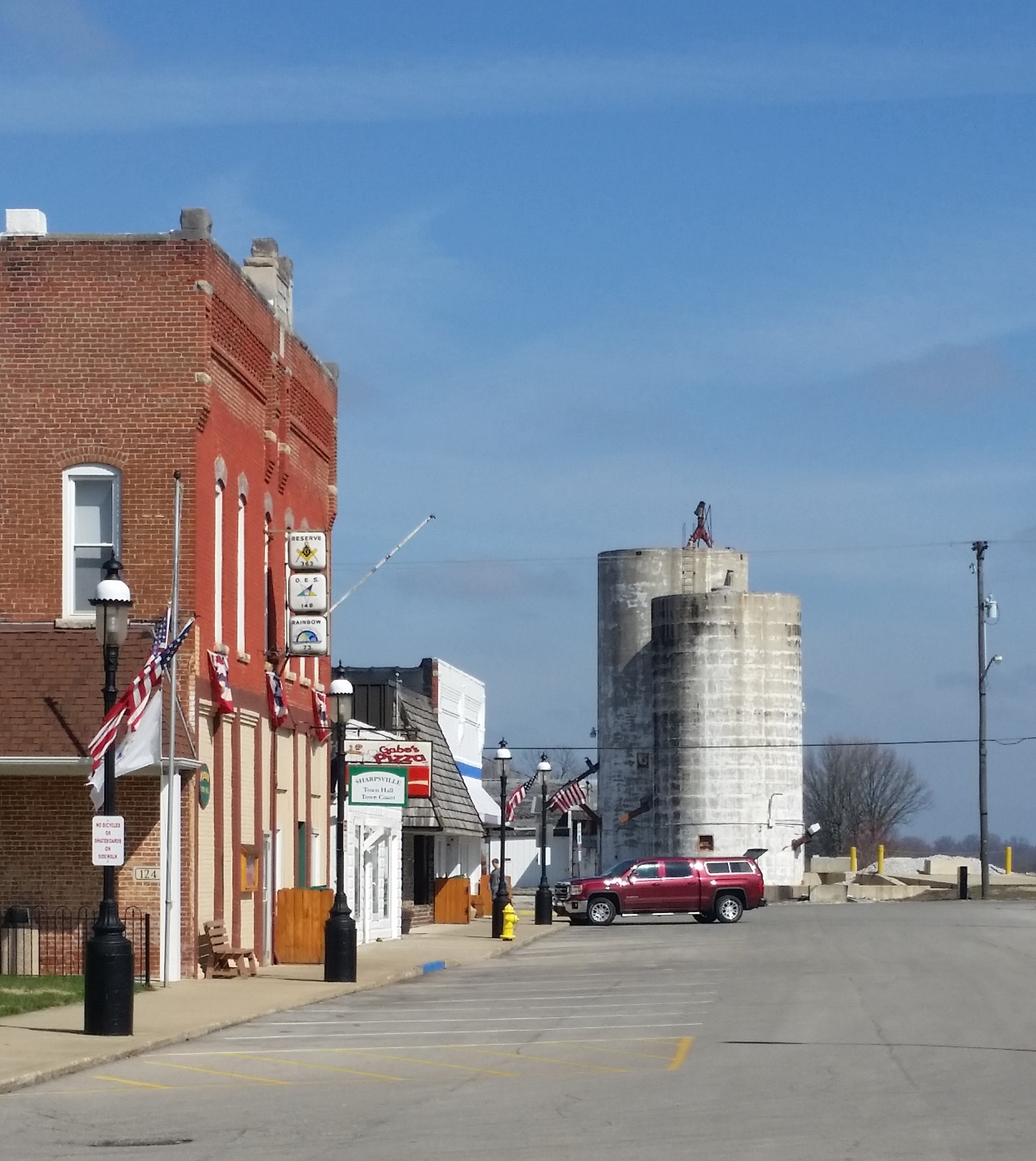 Main Street Sharpsville, Indiana looking North